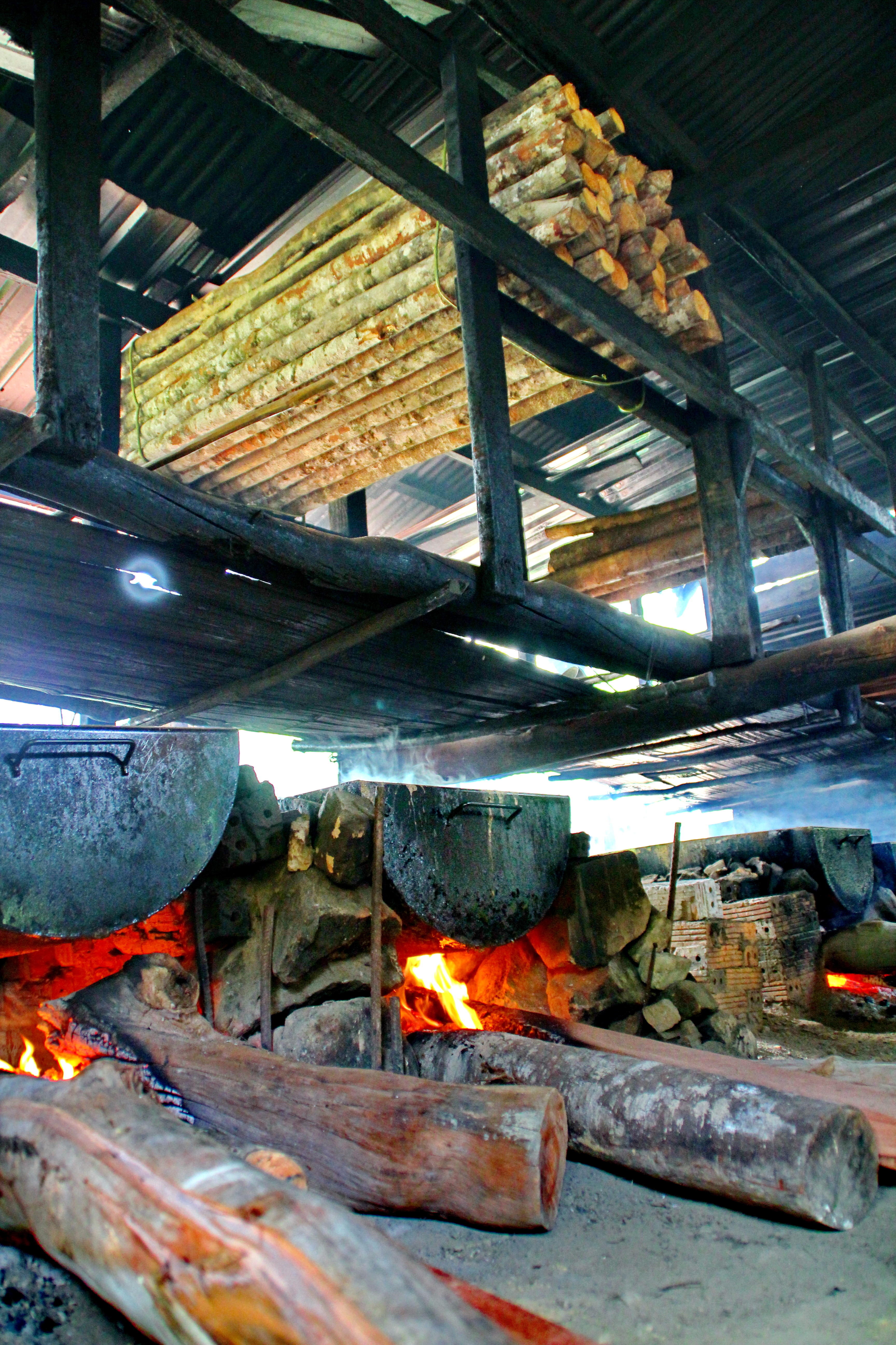 Salt boilers of Min Keramut, Bario